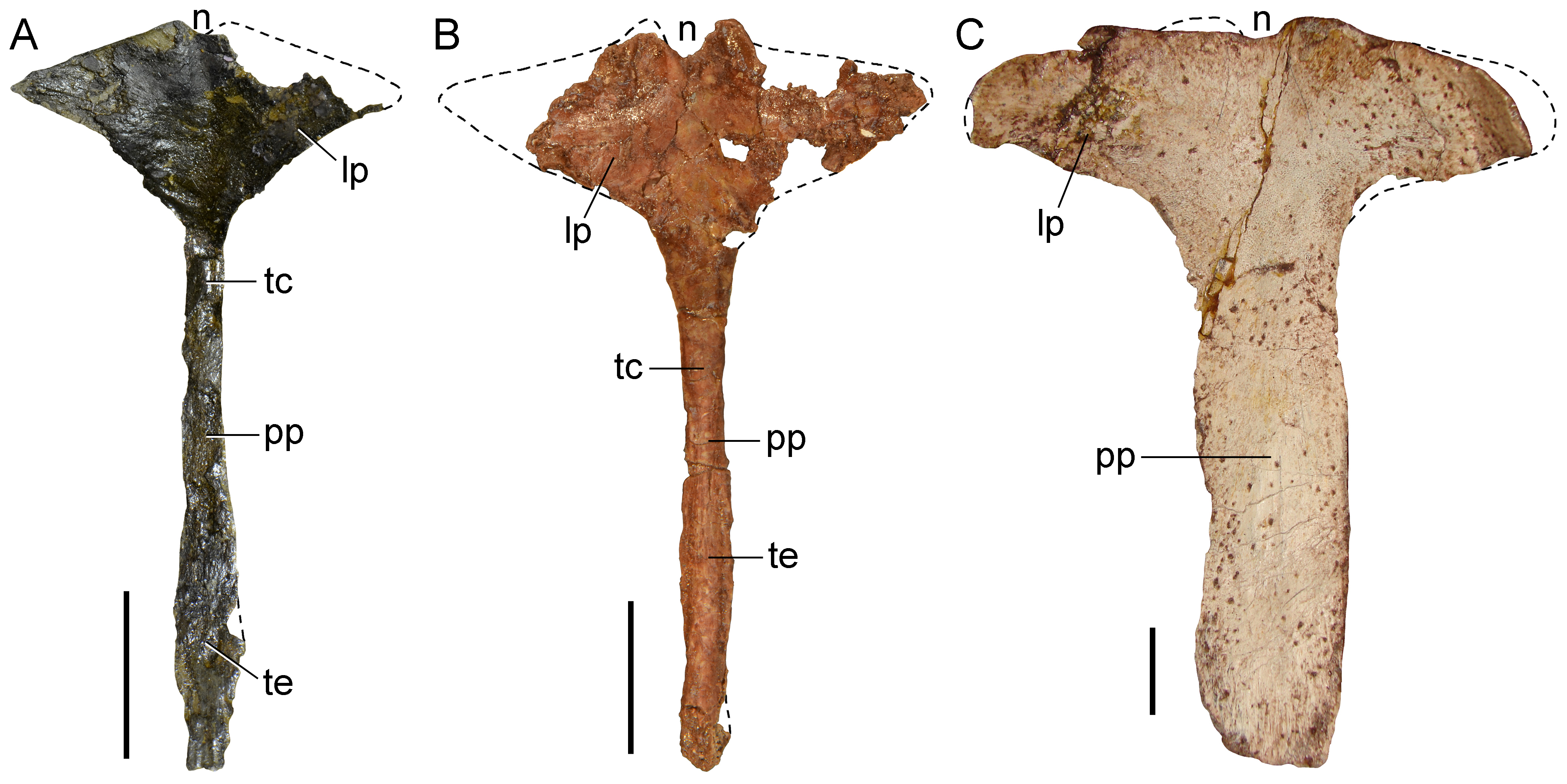 Figure 18. Comparisons of basal archosauromorph interclavicles in dorsal view. A, Tasmaniosaurus triassicus (UTGD 54655); B, Prolacerta broomi (BP/1/2675); and C, Proterosuchus fergusi (GHG 363). Abbreviations: lp, lateral process; n, median notch; pp, posterior process; tc, transverse compression; te, transverse expansion. Scale bars equal 1 cm.